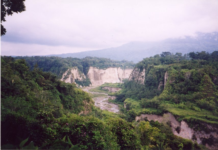 Photo taken by MichaelJLowe of Sianok Canyon, Bukittinggi, West Sumatra, Indonesia